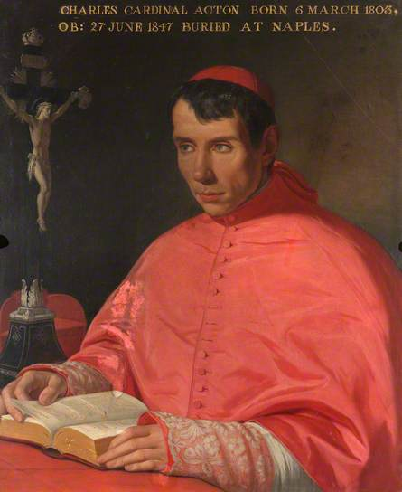 Portrait of cardinal Charles Acton (1803-1847). (c) National Trust, Coughton Court; Supplied by The Public Catalogue Foundation